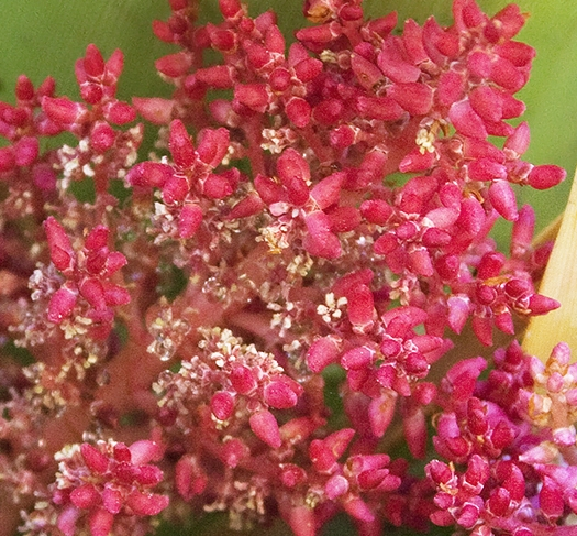 Pandani (Richea pandanifolia) flowers between Waterfall Valley and Lake Holmes, Cradle Mountain - Lake St Clair National Park, Tasmania Australia